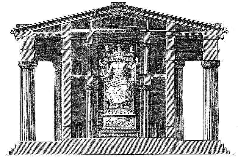 Illustration from "Illustrerad verldshistoria utgifven av E. Wallis. volume I": Temple of Zeus in Olympia.